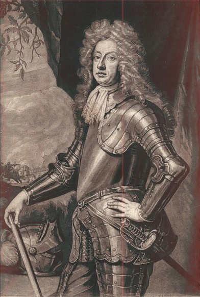 Meinhardt Schomberg, 3rd Duke of Schomberg - Official Portrait